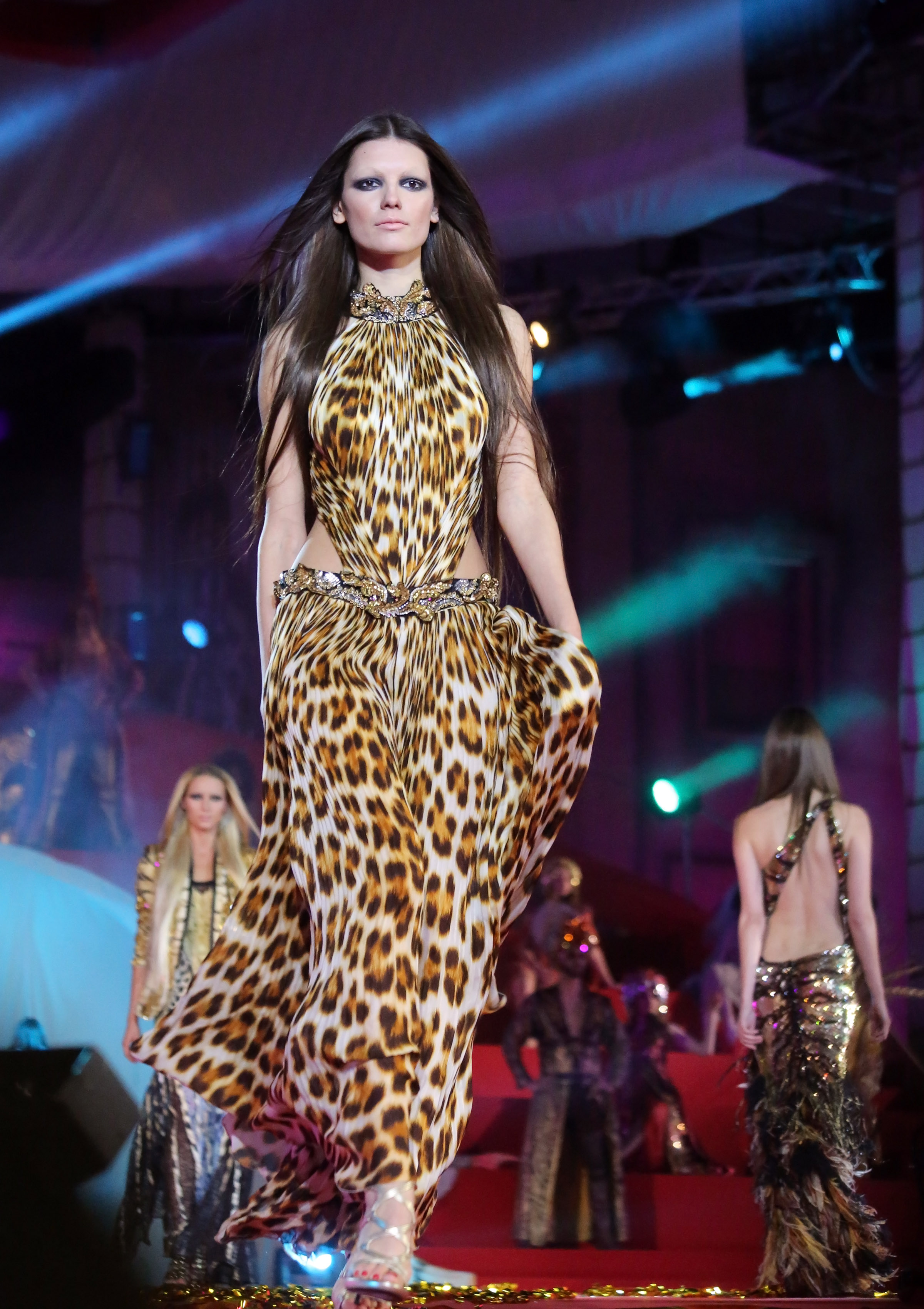 Fashion show by Roberto Cavalli, opening of Life Ball 2013 at the city hall of Vienna, Vienna, Austria.